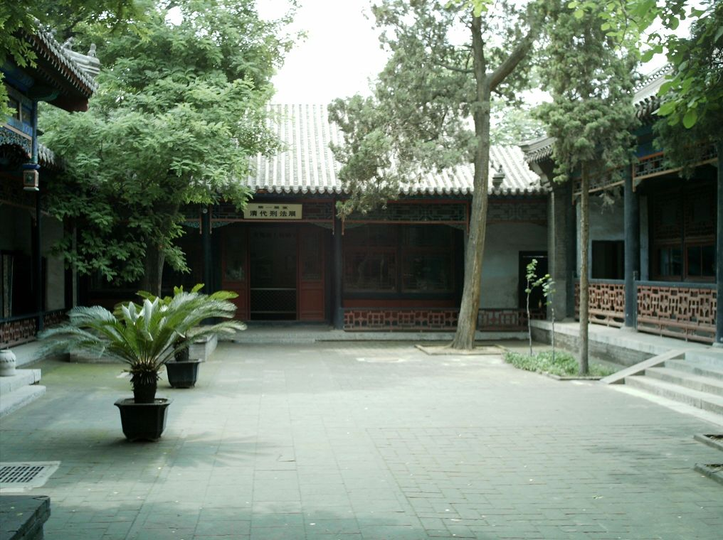 Photo of a courtyard in the mansion of the governor of Zhili, in Baoding, China